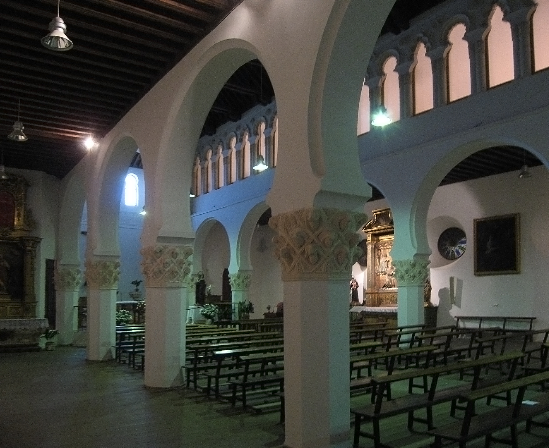 Interior of the old main synagoge of Segovia, Spain.